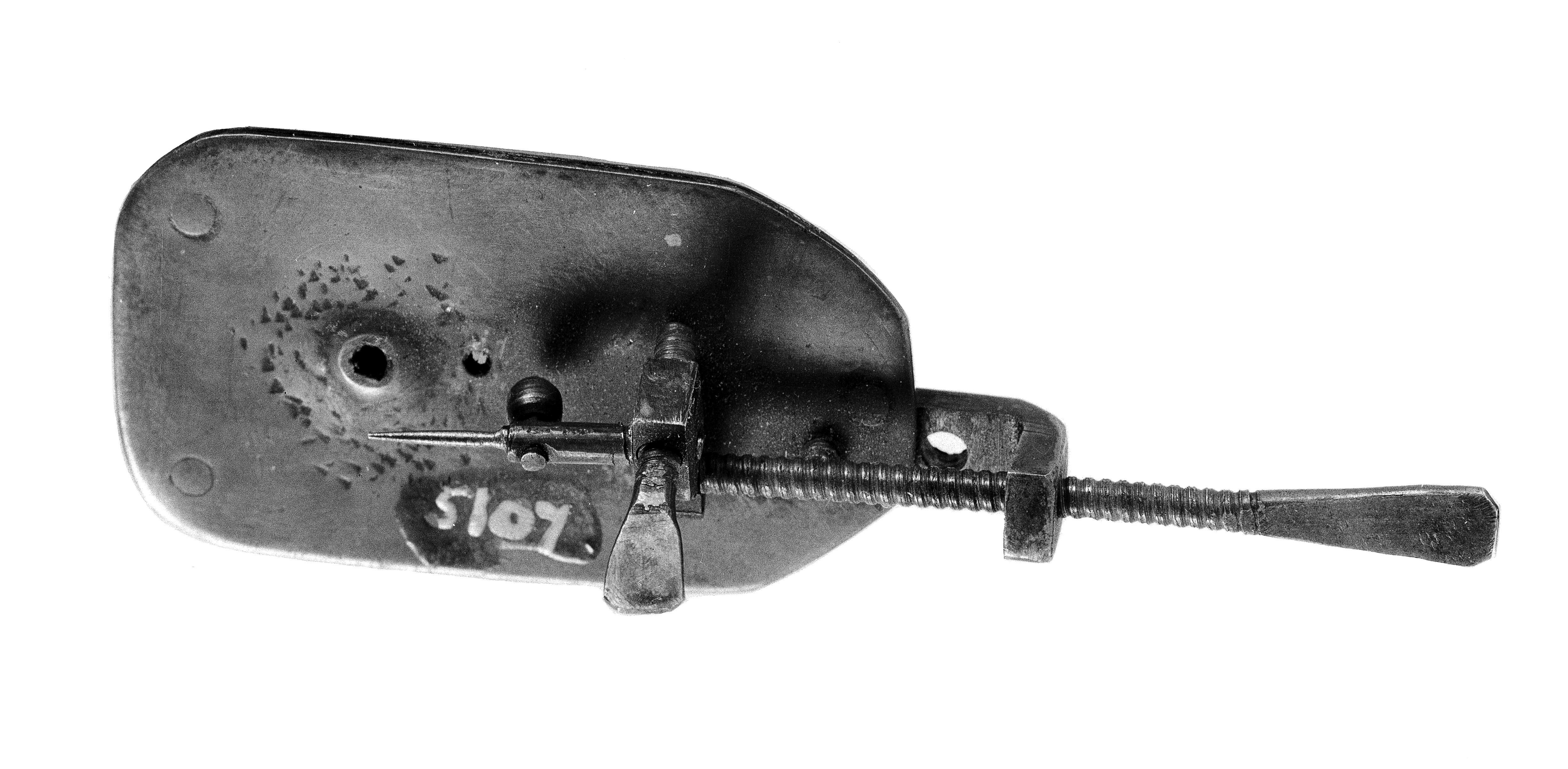 Facsimile of the Leeuwenhoek microscope in Utrecht University Wellcome Images Keywords: Anthony van Leeuwenhoek; Microscopy